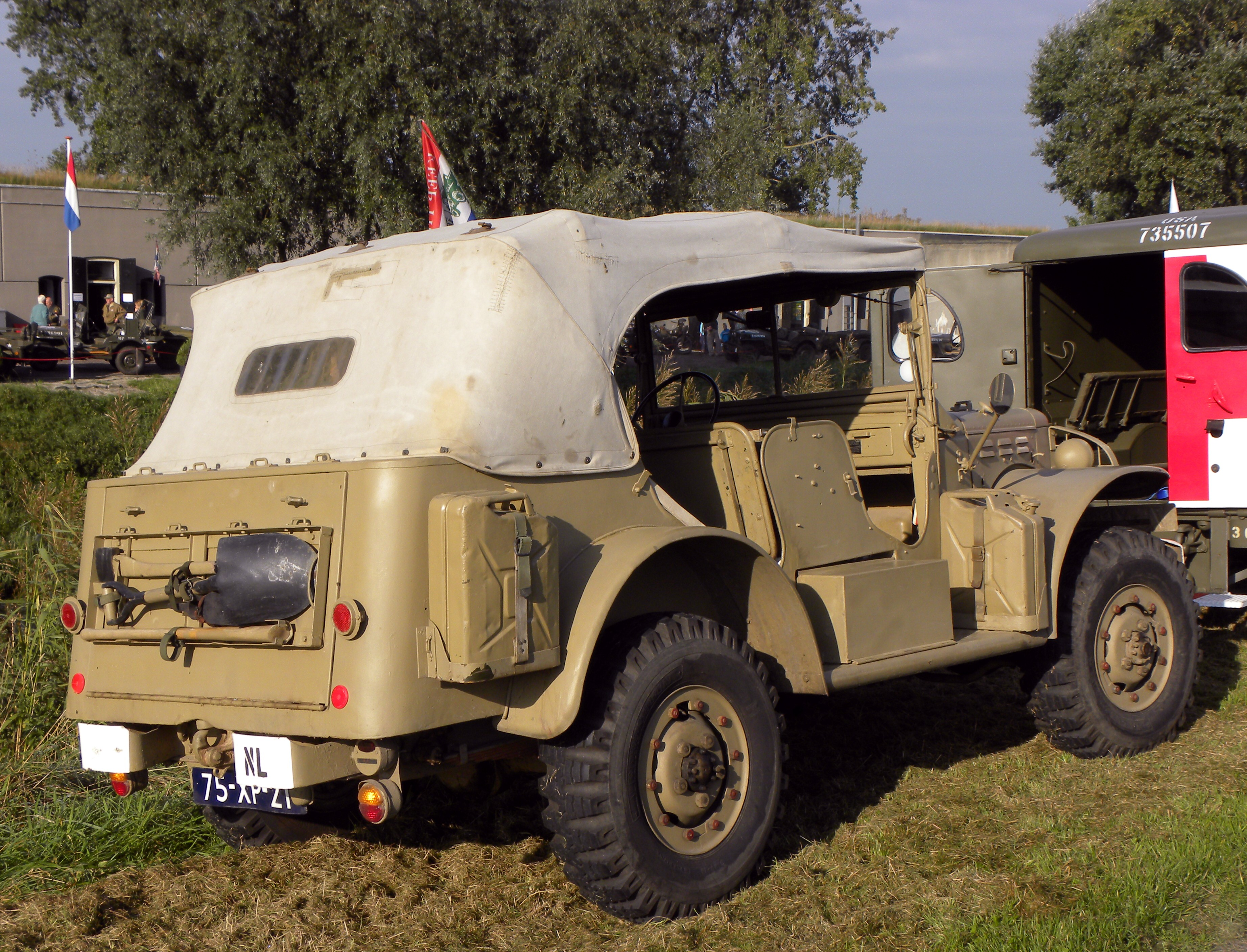 seen at crash 40-45 museum, red ball express event